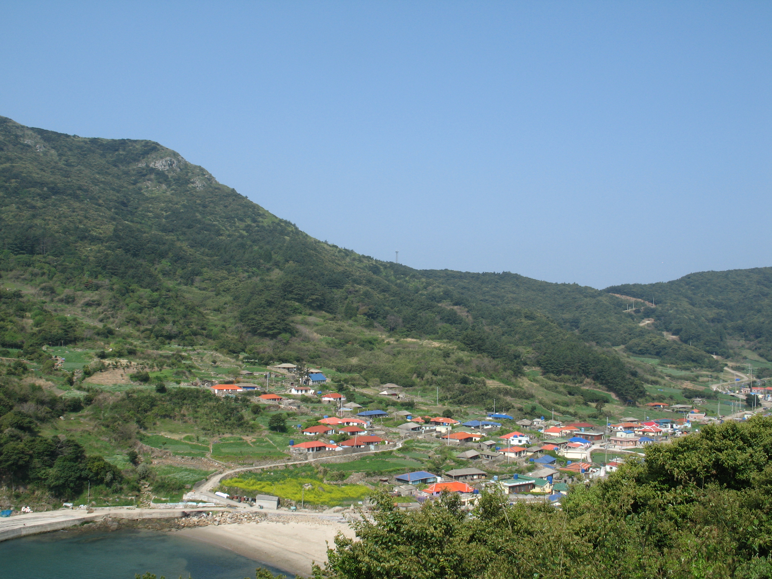 Heuksando Island, South Korea